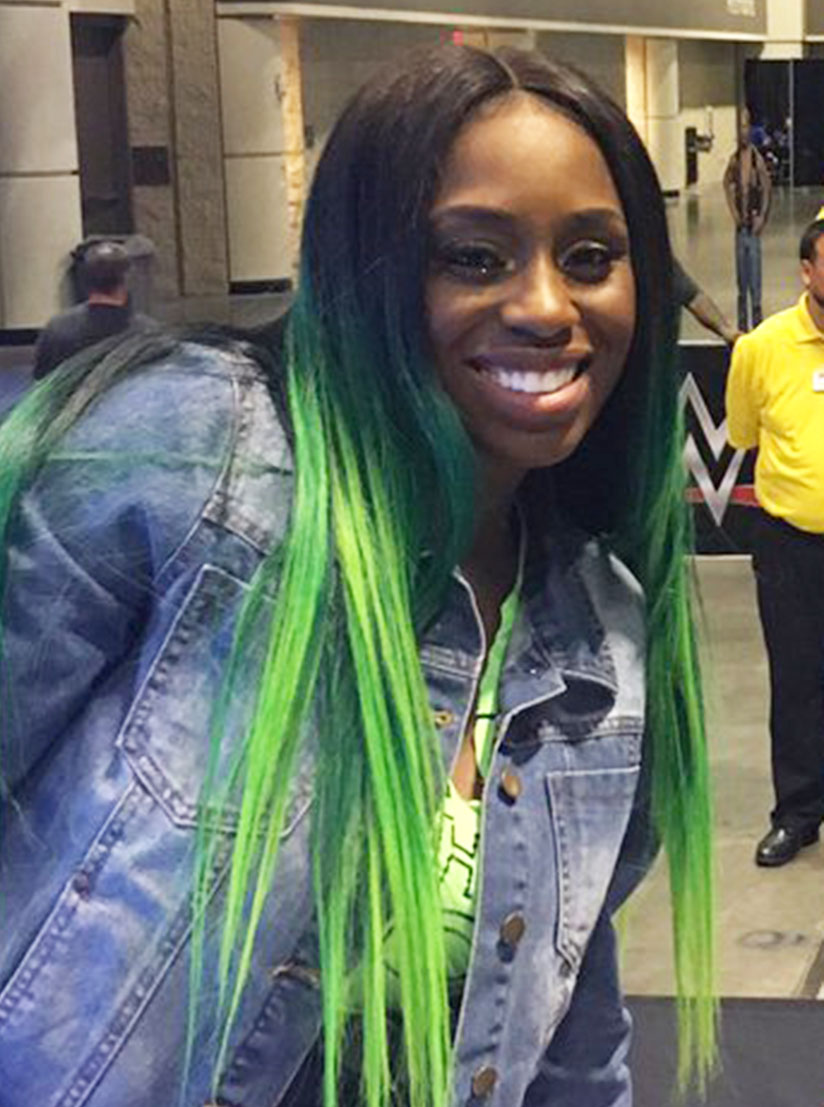 Naomi at WrestleMania Axxess 2017